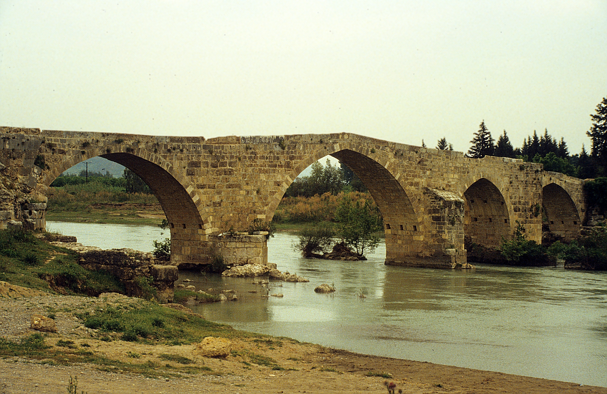 The Eurymedon Bridge (Köprüpazar Köprüsü) near Aspendos, Pamphylia, Turkey